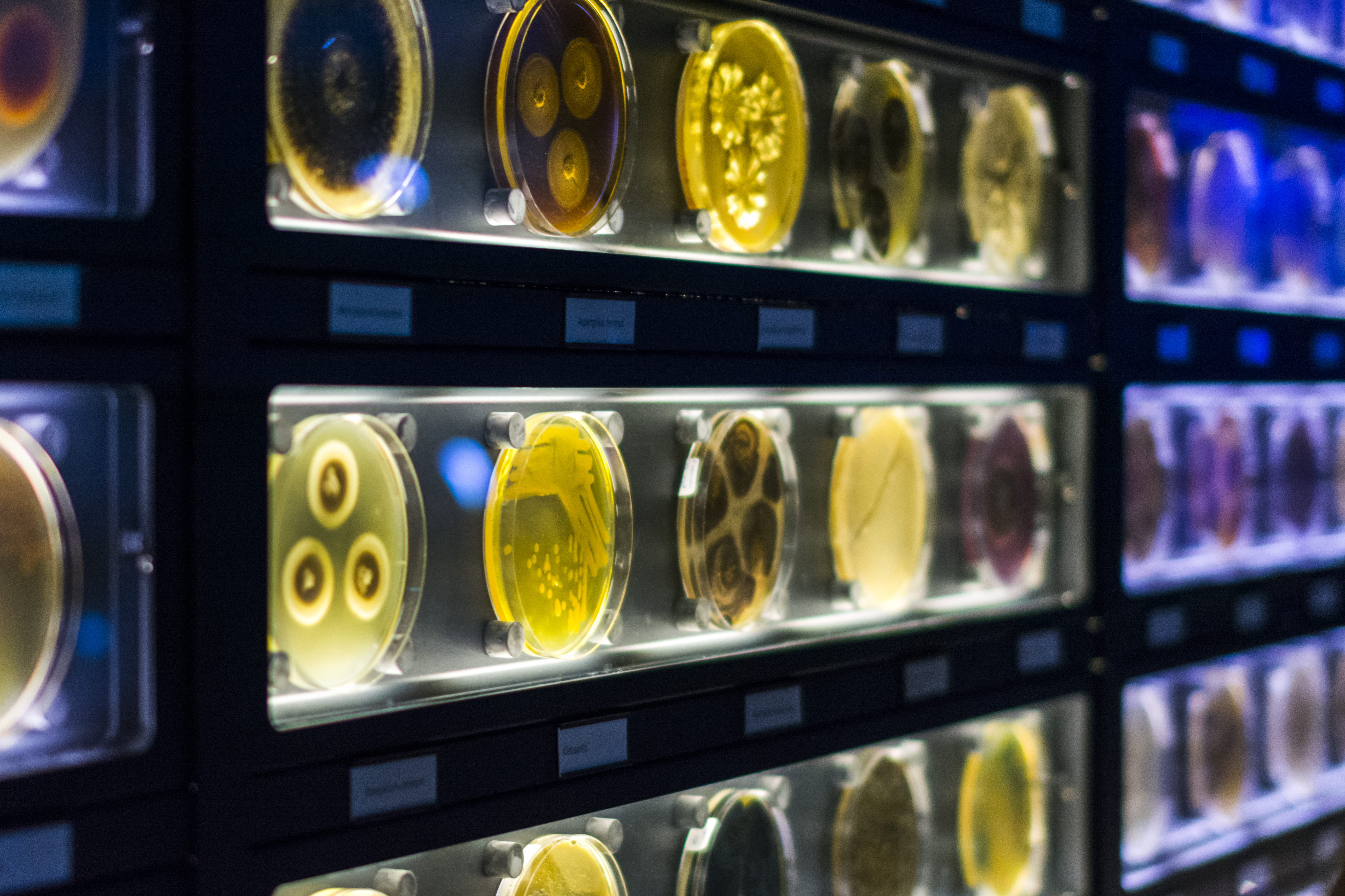 A small collection of cultured microorganisms, visually interesting on a macroscopic scale.